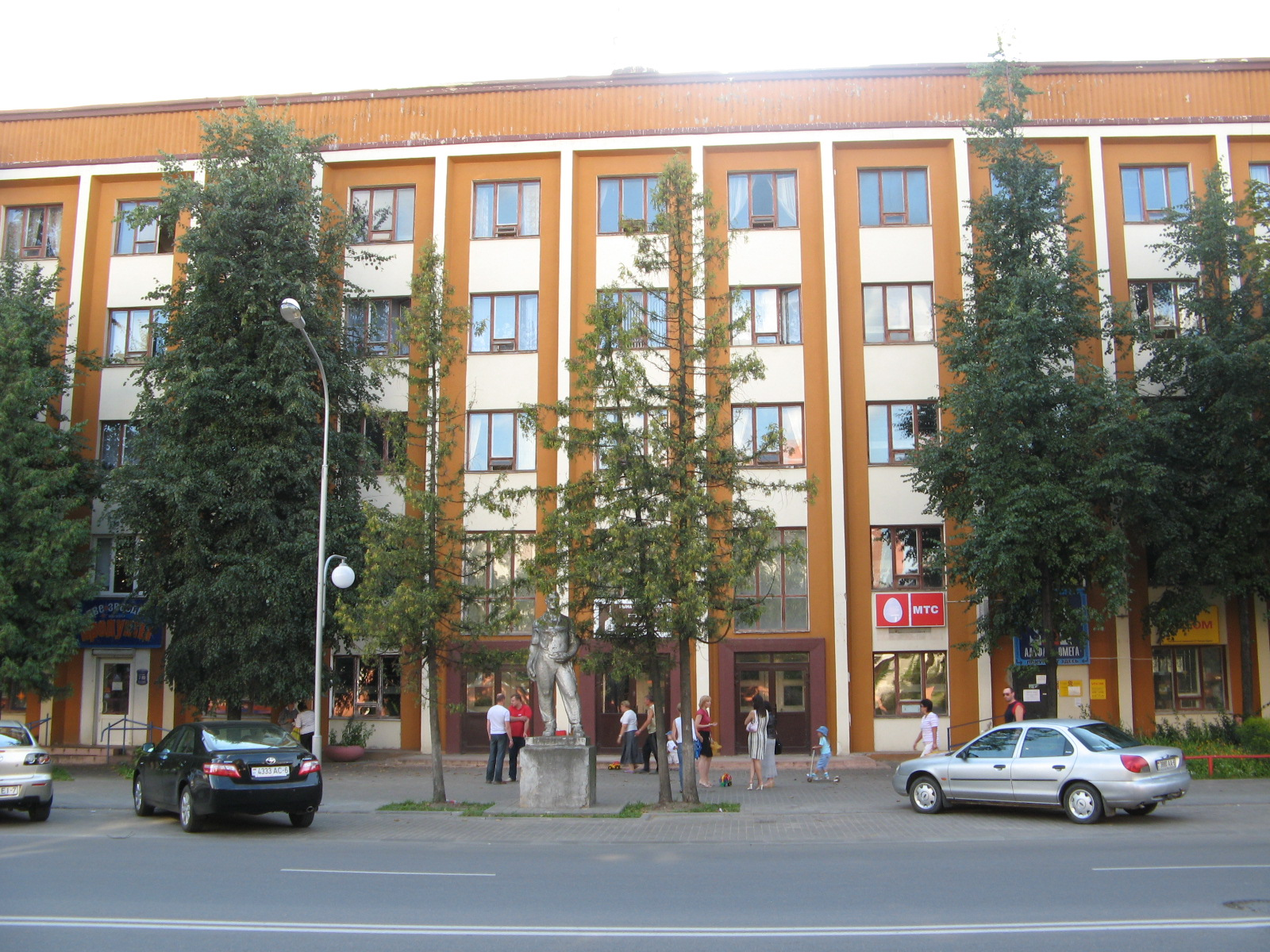 In front of the Roman-Catholic church of Immaculate Conception of Mary (Babrujsk, modern condition)